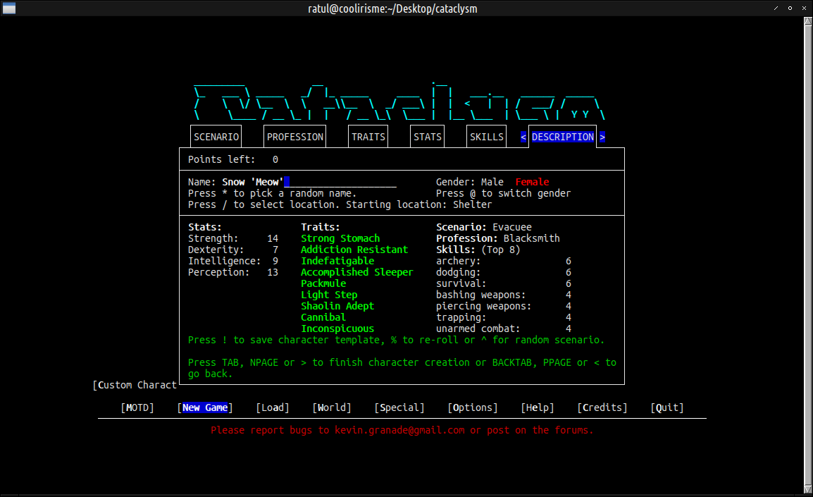 Screenshot of player creation menu from Cataclysm: Dark Days Ahead